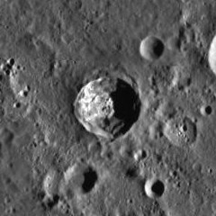 Calder crater, on Mercury. MESSENGER Wide Angle Camera mosaic. Image is approximately 79 km wide.